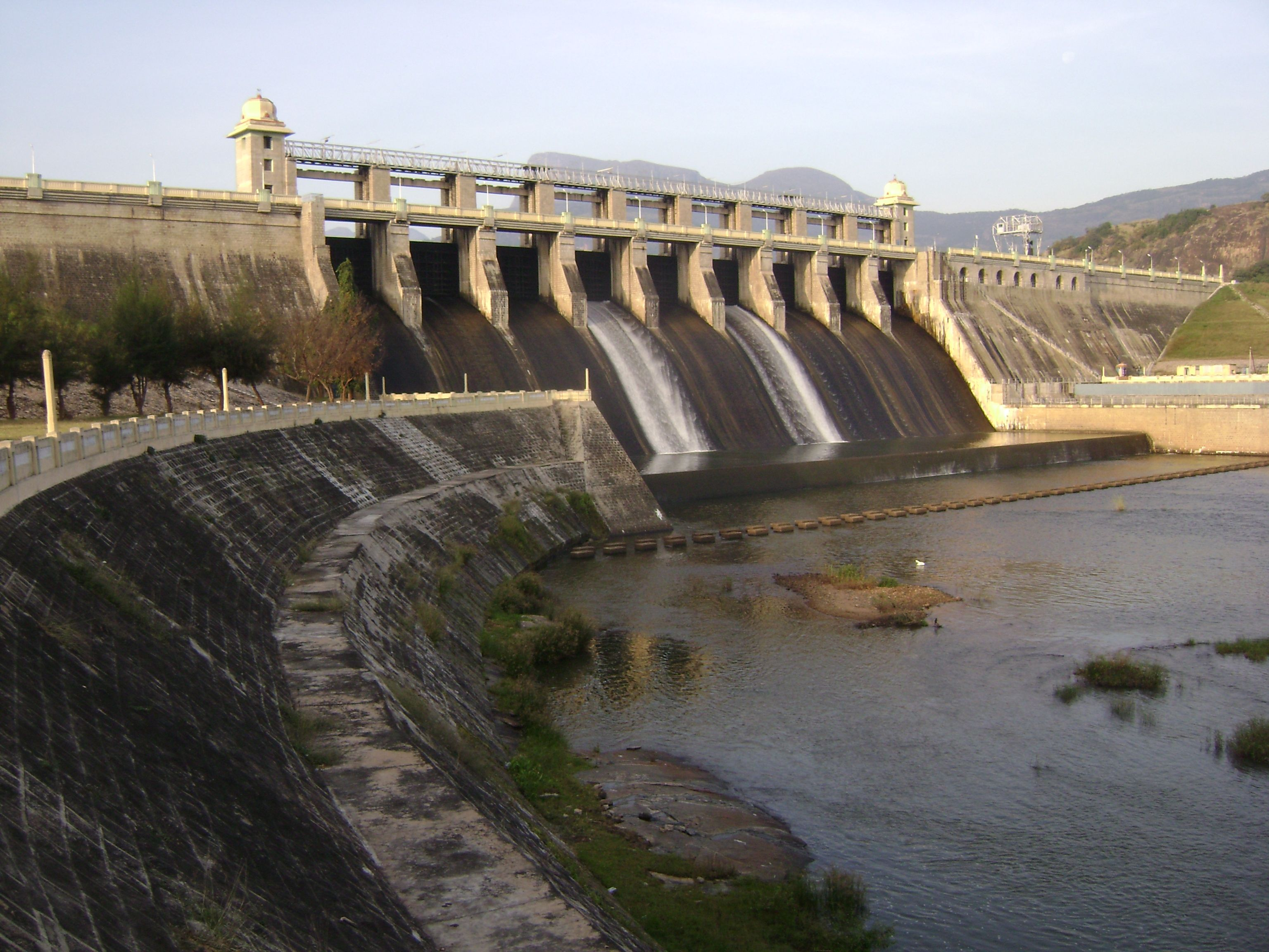 Amaravathi Dam at Amaravathinagar, 25 km from Pollachi, is located in Indira Gandhi Wildlife Sanctuary in Coimbatore district, Tamil Nadu, India.